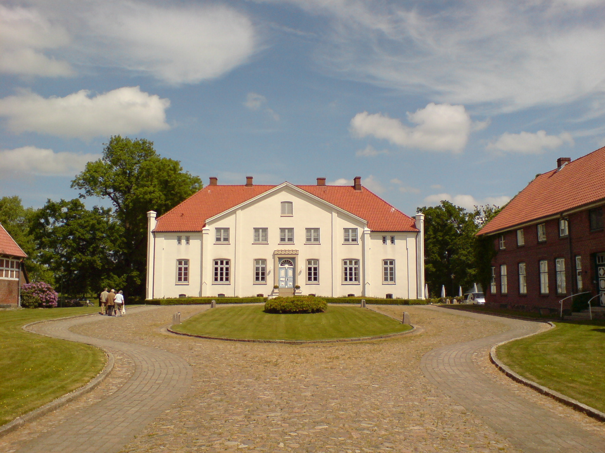 Kaden Manor